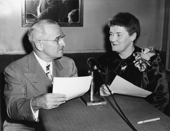 President Harry S. Truman (left) with Mrs. India Edwards, Executive Director, Women's Division, Democratic National Committee, during a radio interview. The President gave the interview as he traveled by train during his 1948 whistlestop Campaign. Credit: Harry S. Truman Library & Museum.